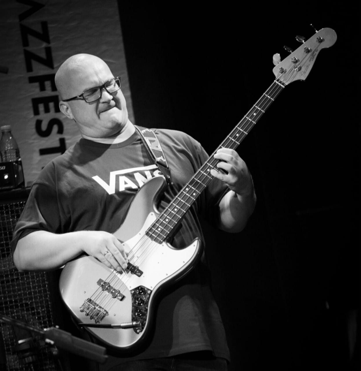 Frode Berg, bassist, Oslo